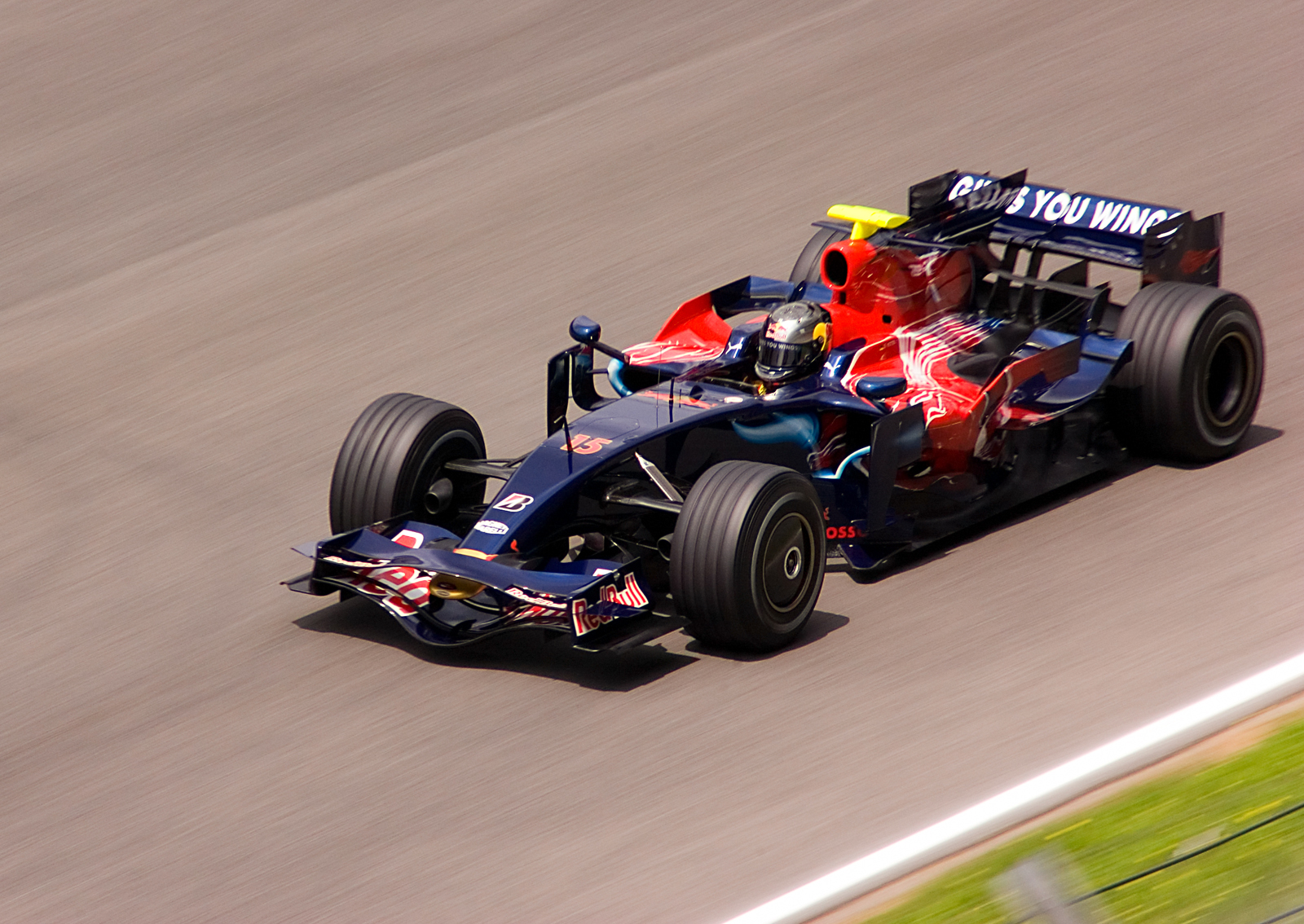 Sebastian Vettel testing for Scuderia Toro Rosso at the Circuit de Catalunya in June 2008.